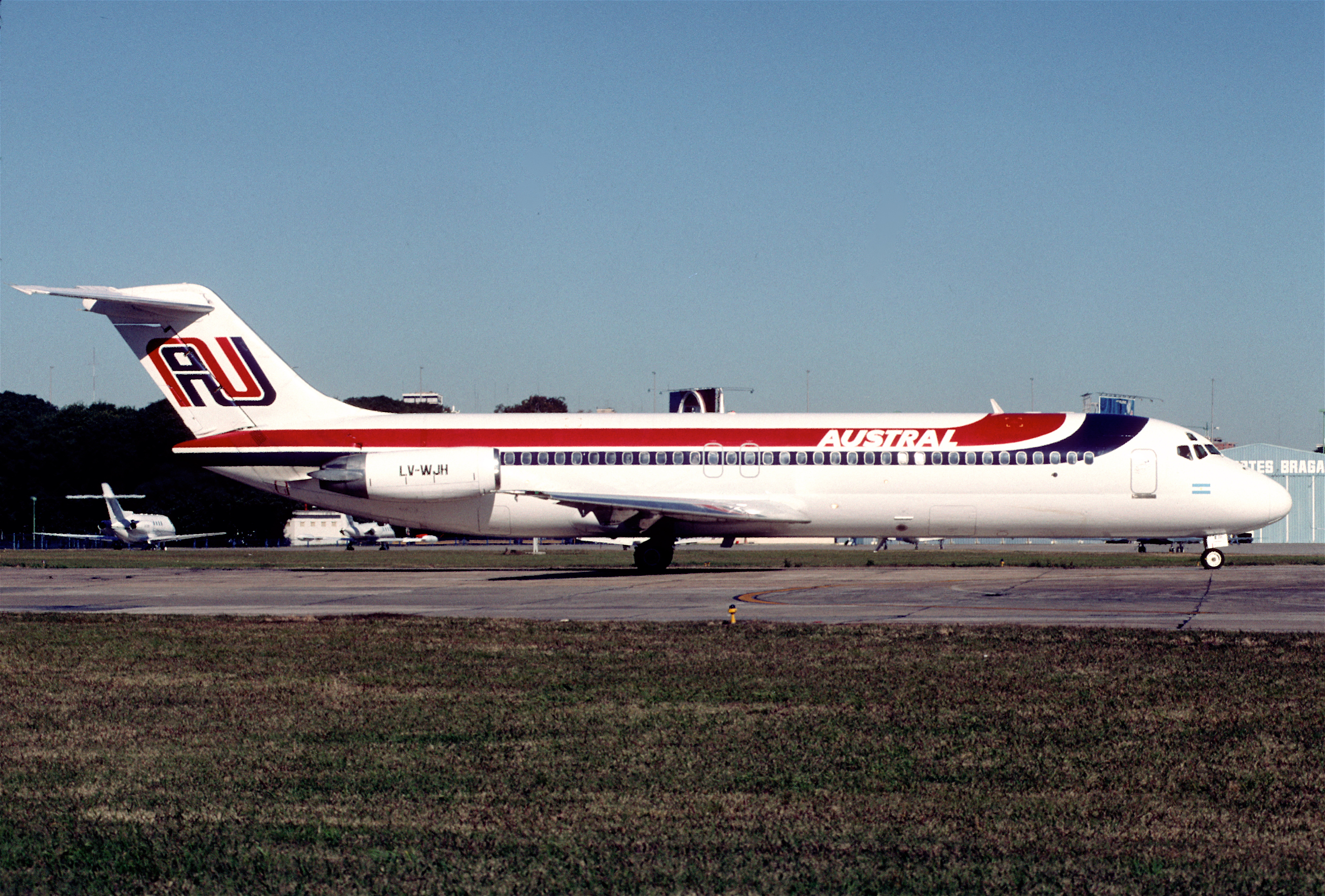 Austral DC-9-32; LV-WJH@AEP, June 1999